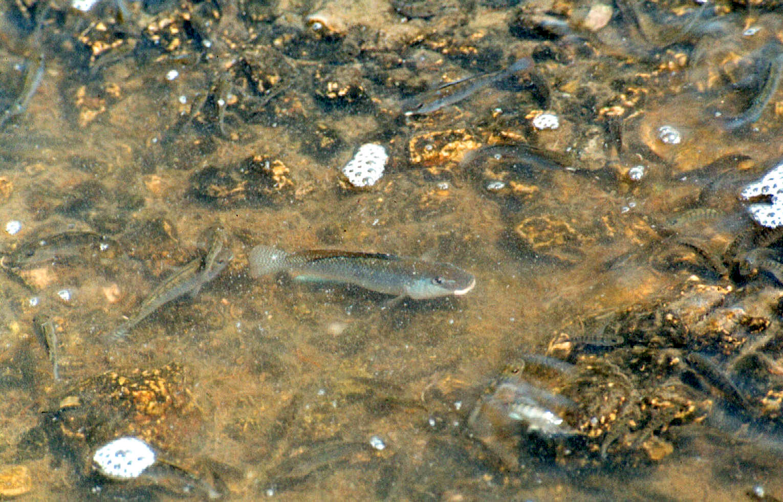 Alcolapia grahami in lake Magadi hotsprings. Kenya 1980s.